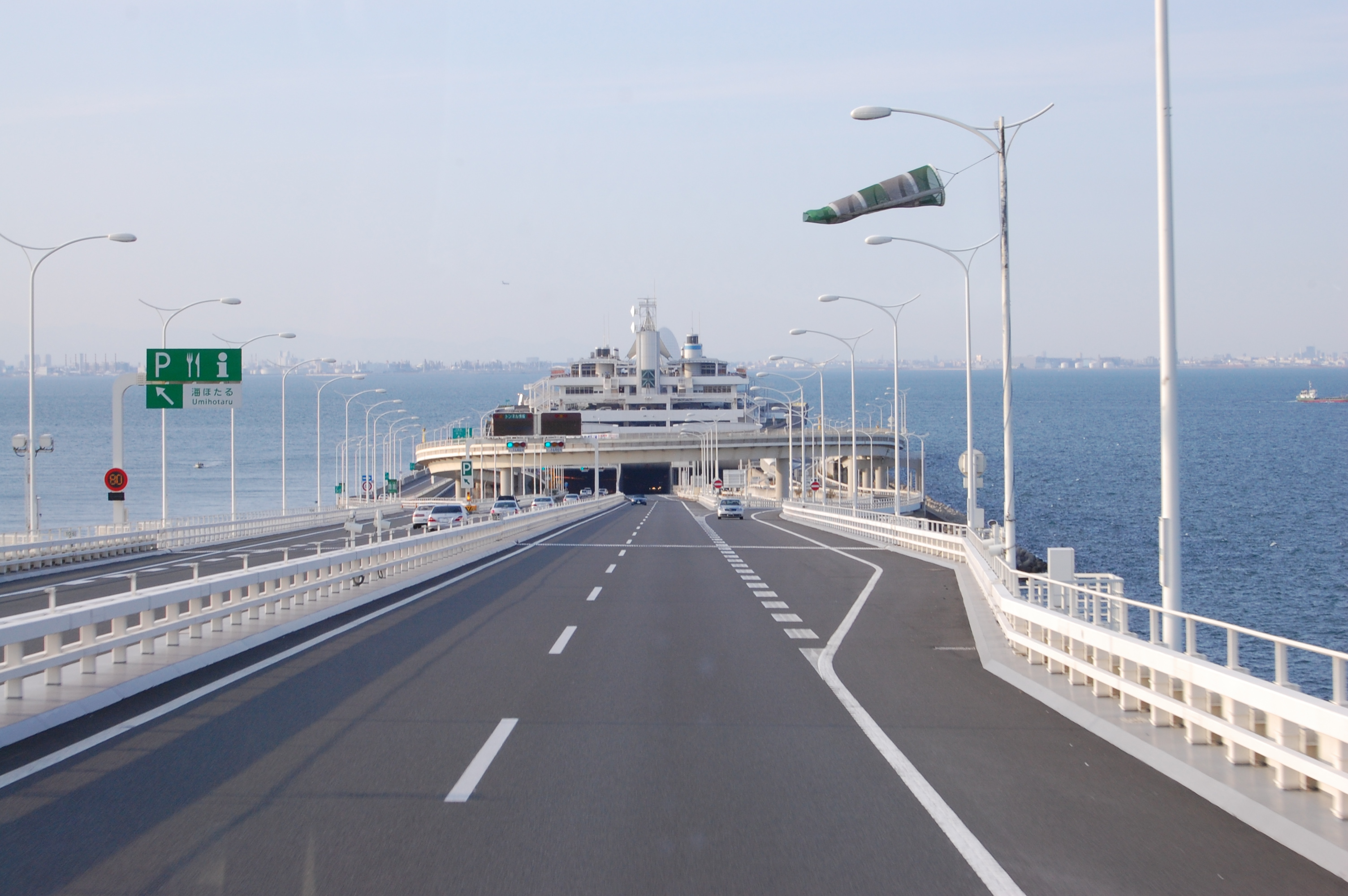 UmihotaruPA in Kisarazu city, Chiba, Japan